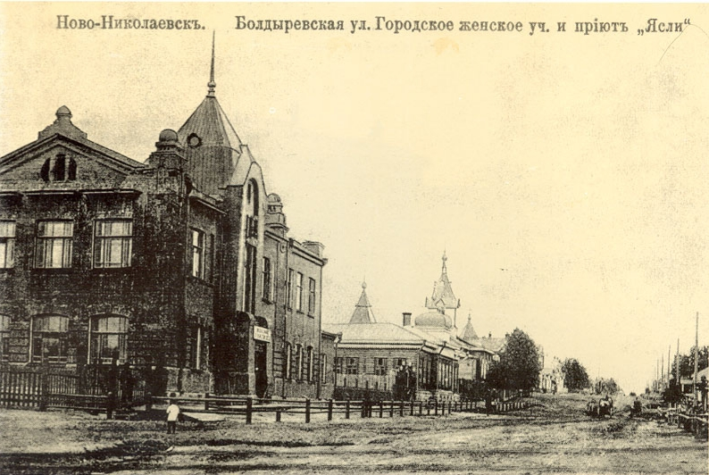 School No 3 in Tsarist period. Novonikolayevsk (modern Novosibirsk), Russian Empire.